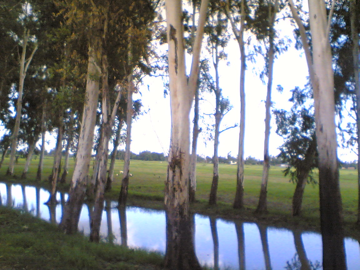 Road Side Canals can be seen every where around the city, which are very useful for agricultural purposes.